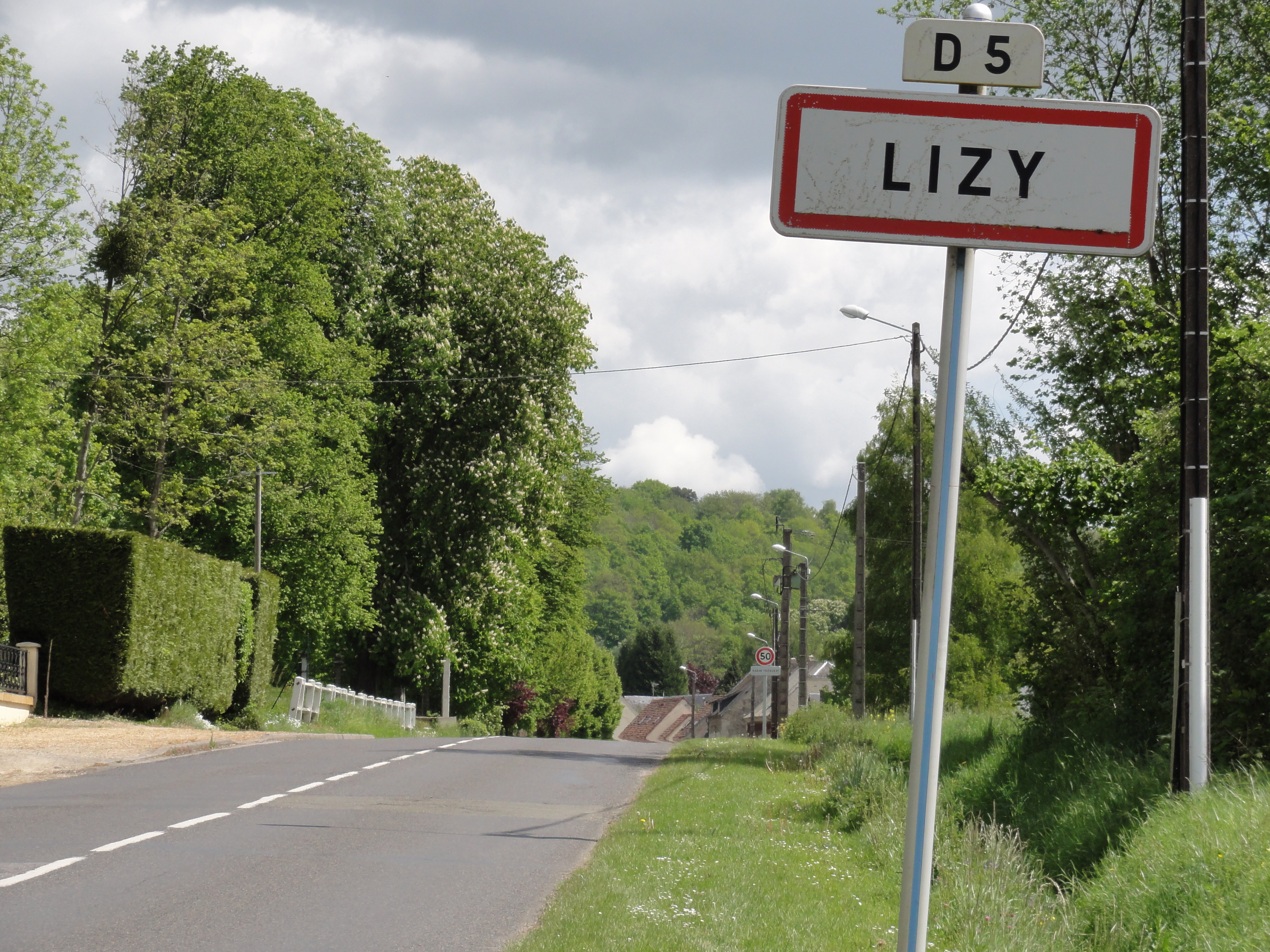 Lizy (Aisne) city limit sign